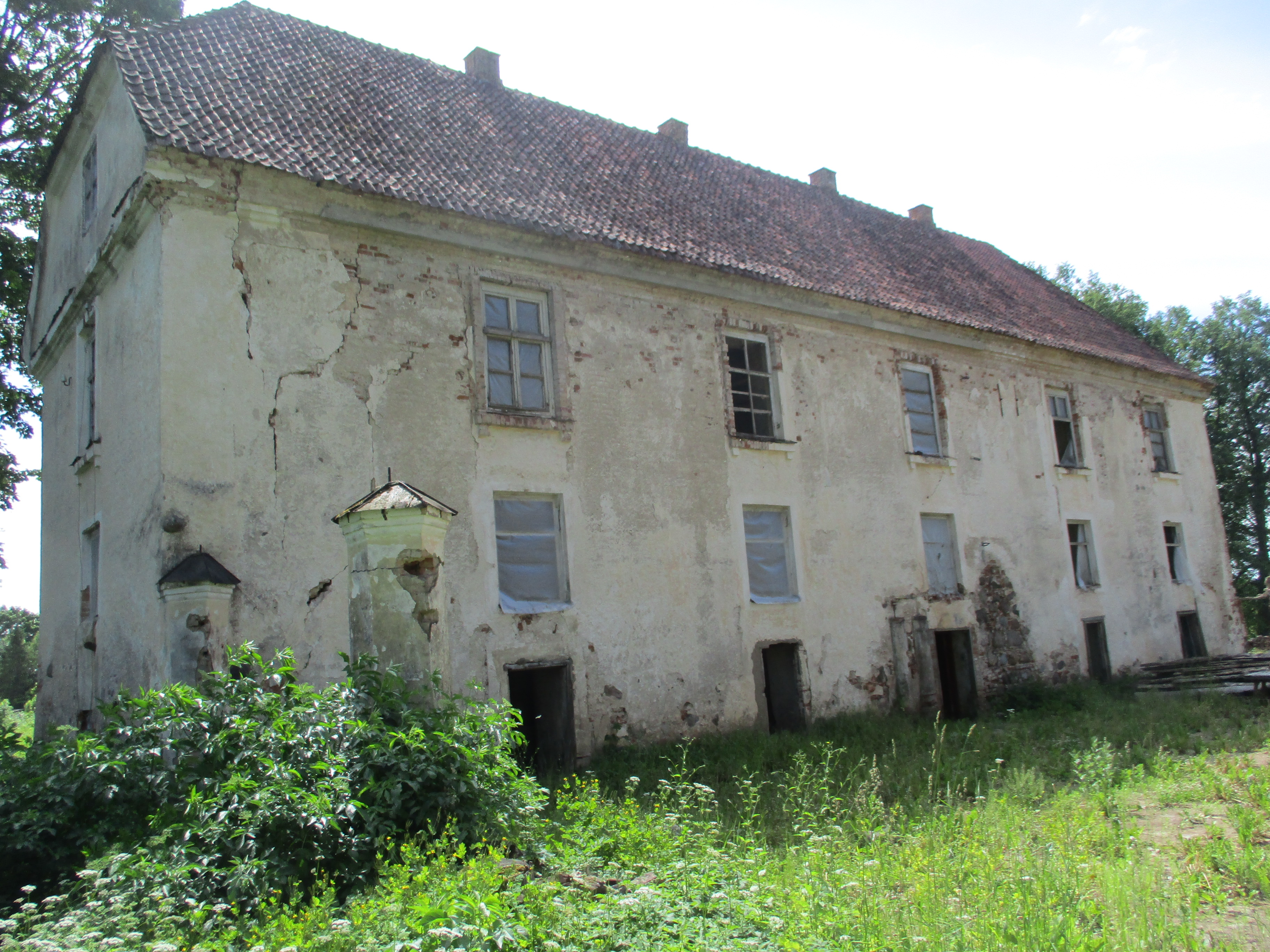 Nereta manor, Nereta Municipality